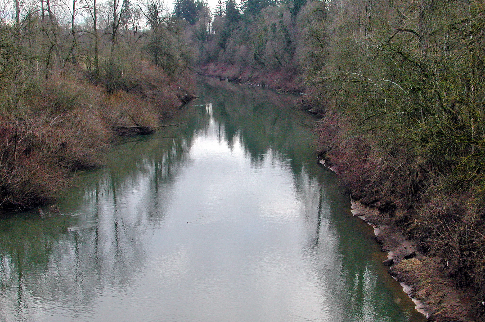 Yamhill River in Dayton, Oregon, as seen from the Ferry Street footbridge looking east.